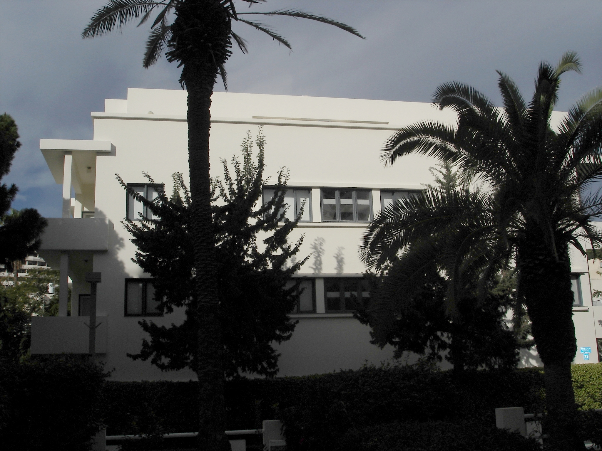 Shomo Yafe House, 21 Bialik St, Tel Aviv, built in 1935 by architect Shlomo Gepstein